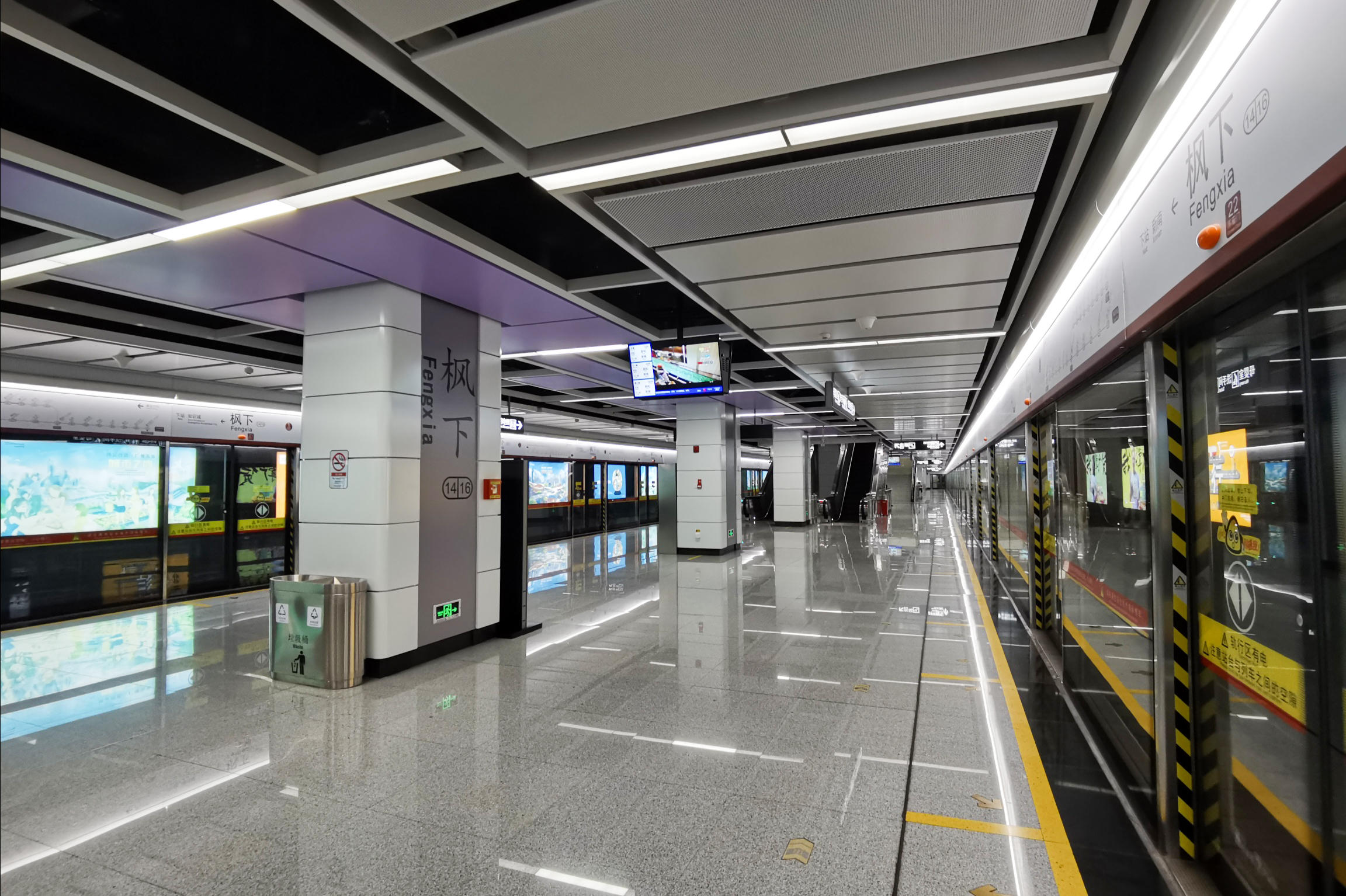 广州地铁枫下站